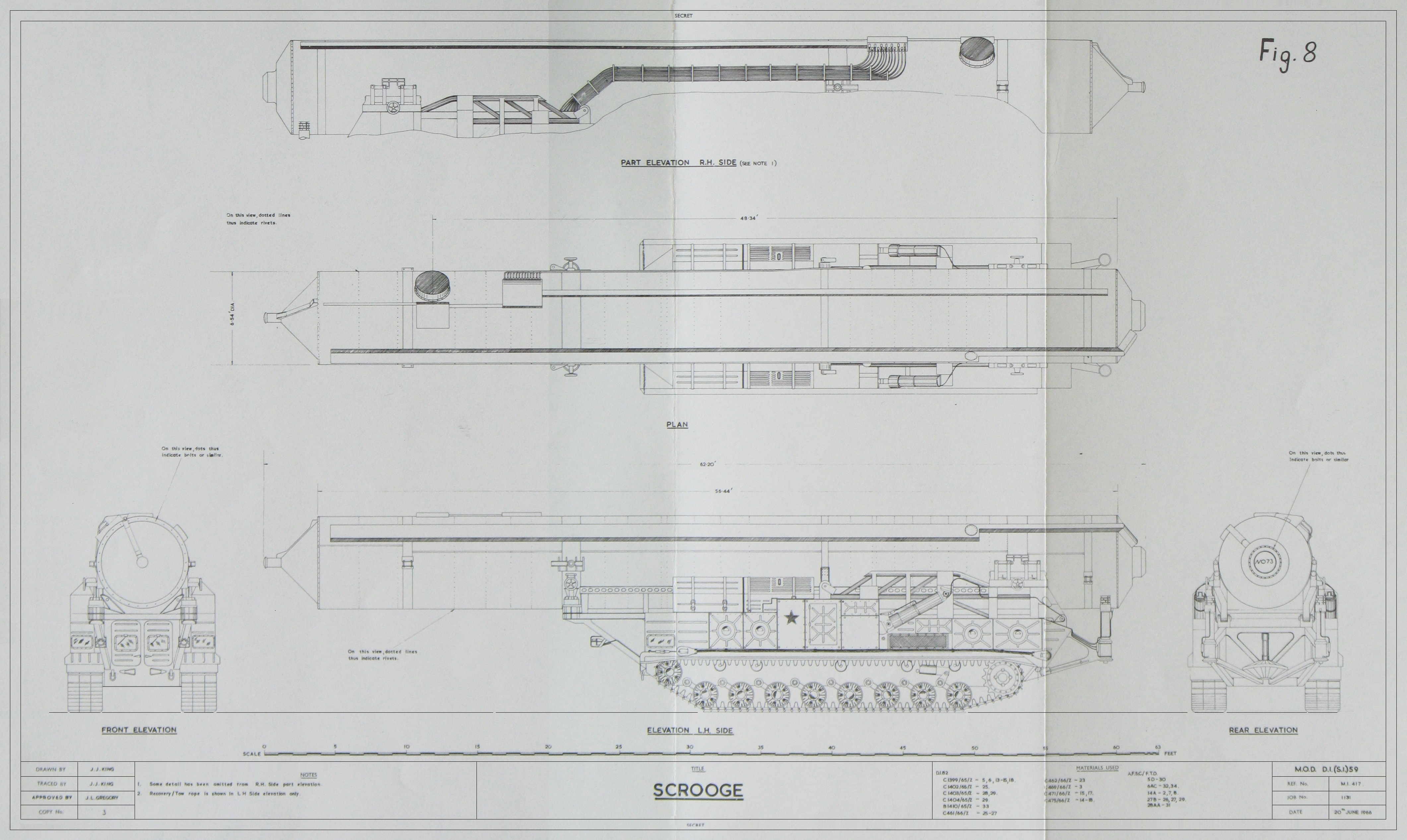 A mobile ICBM carried aboard a tracked armoured vehicle based on the JS-3 Stalin tank in the Red Square May Day Military Parade 1966. This missile was given the NATO Reporting Name of SS-15 Scrooge. The Soviet designation was RT-20. This photograph of a declassified UK Ministry of Defence dyeline print published in DEFE 44/163 is available to view in The National Archives, Kew, London. The image has been stitched together from two segments and retouched merely to straighten it up and remove the distortion created by the camera lens. Shooting as two segments was necessary because of the very large drawing size and the limited space and facilities available in the National Archives. The drawing was created by UK Ministry of Defence draughtsman J.J.King based on intelligence, personal observation by Allied embassy military attachés, and photographs taken of equipment seen in a Moscow Red Square May Day Military Parade 1966, and possibly other intelligence sources.